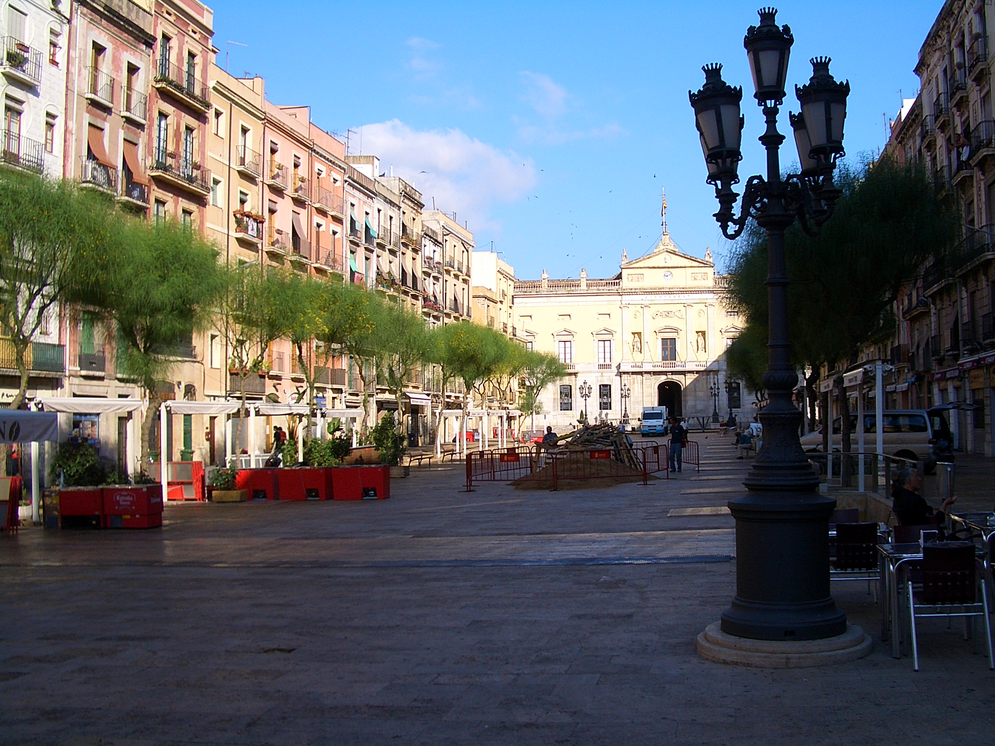 Plaça De La Font, the main square of Tarragona